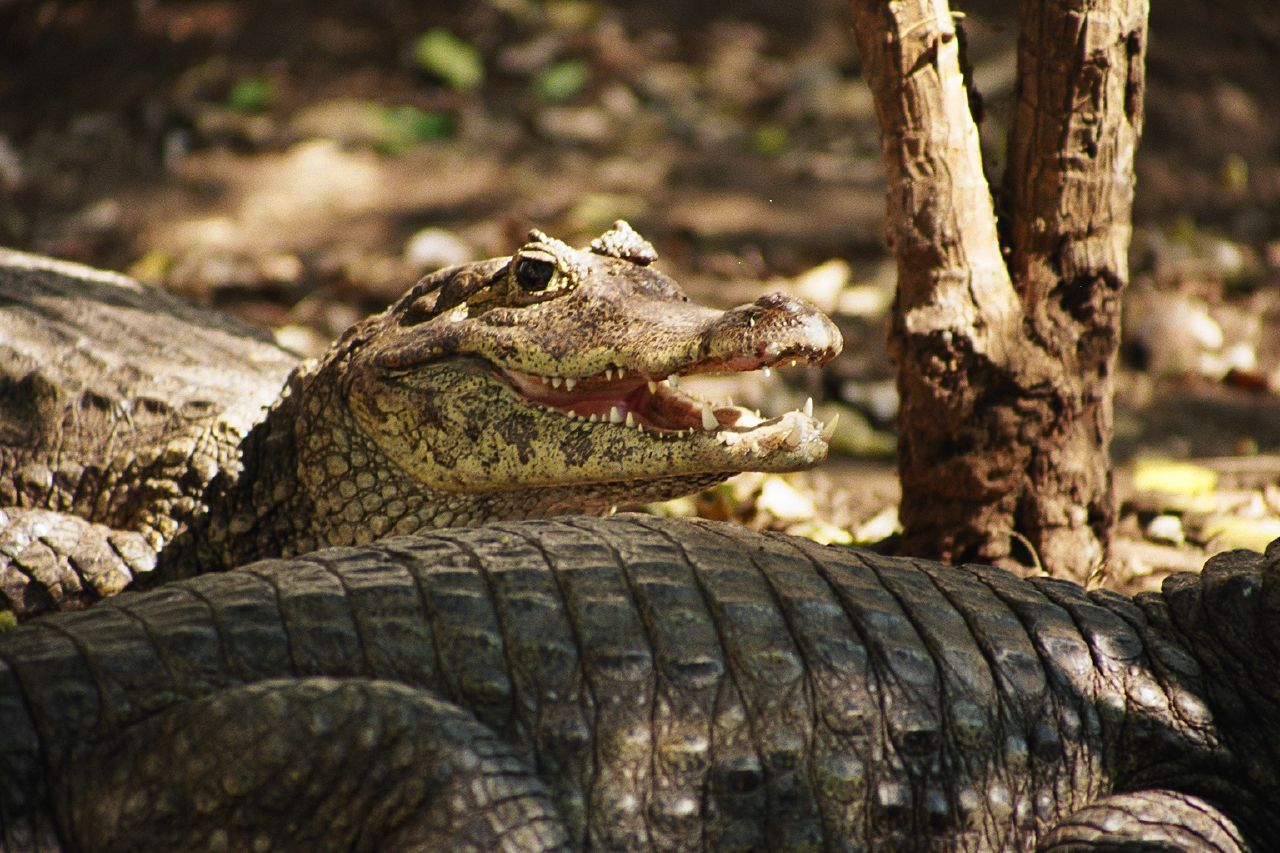 Spectacled caiman (Caiman crocodilus) in Monterrico, Guatemala.